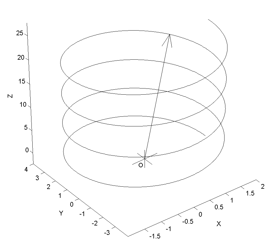 This a graph of a parametric curve (a simple vector-valued function with a single parameter of dimension 1). The graph is of the curve: where t goes from 0 to 8 pi.